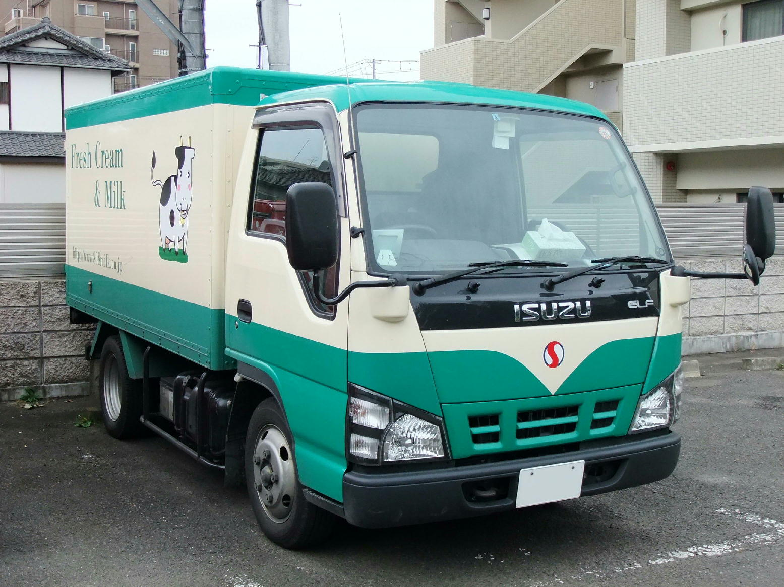 ISUZU ELF, 5th Generation vehicle,(later model in Japanese market), （It is called N-series or REWARD excluding a Japanese market.）